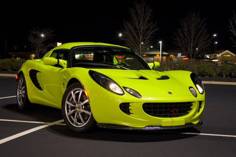 A green Lotus Elise at night.